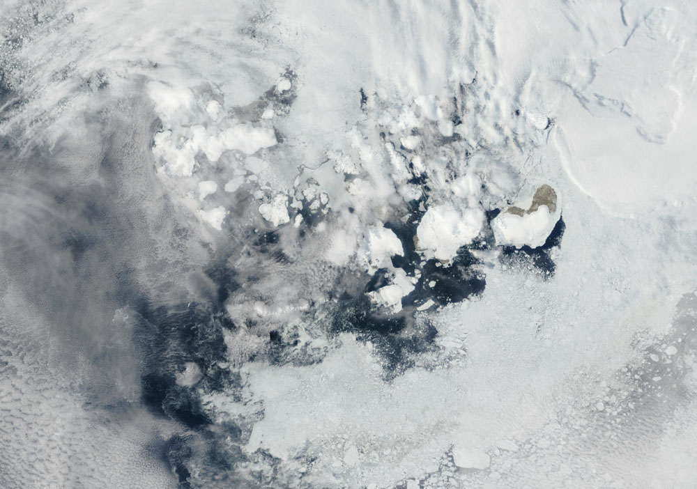 Terra MODIS satellite image of Franz Josef Land (Земля Франца Иосифа) archipelago, Russia.